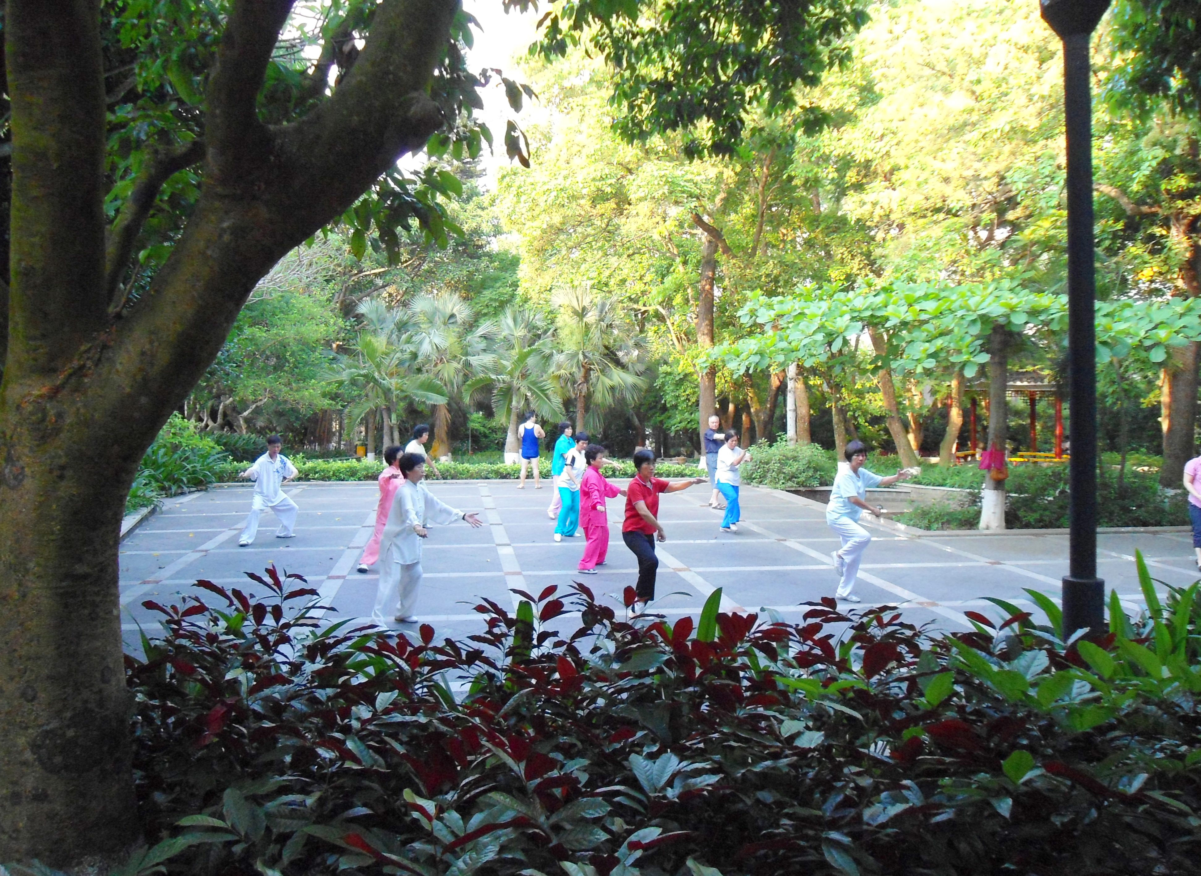 People practicing t'ai chi ch'uan (tai chi) in Haikou People's Park, Haikou City, Hainan Province, China